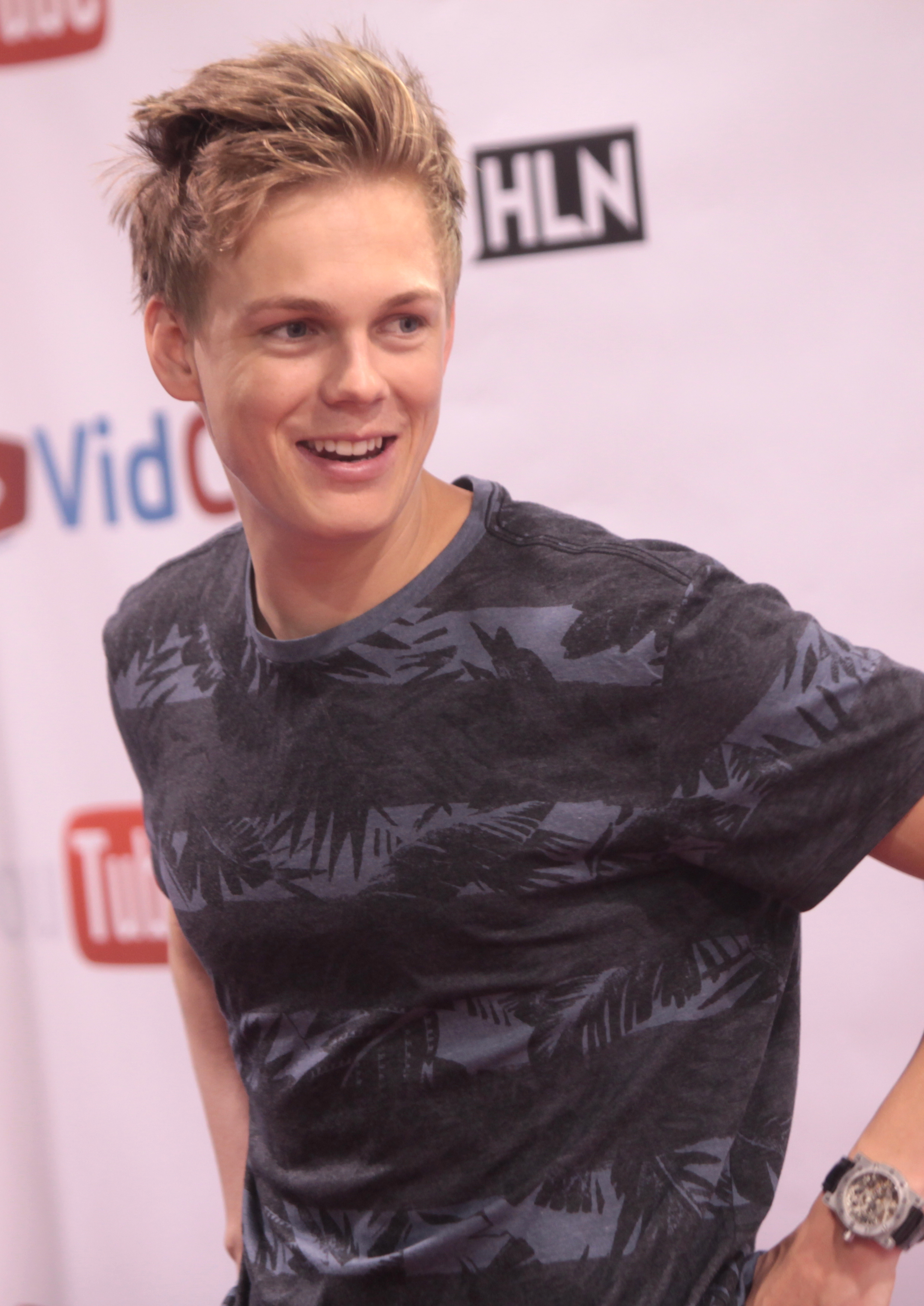 Caspar Lee speaking at the 2014 VidCon on June 28, 2014.